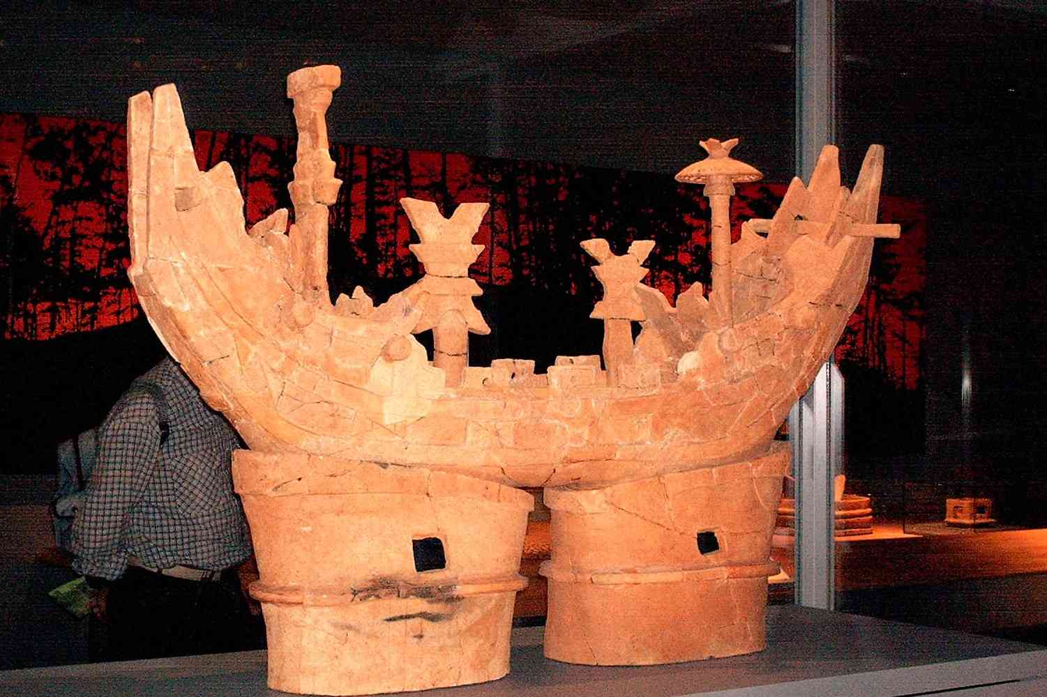 A clay figure of a ship, a funagata-haniwa, buried at the Takaraduka tomb mound (kofun) in Matsusaka-shi, Mie, Japan. This image was made from the original of Image:Funagata-haniwa 01.JPG by trimming.